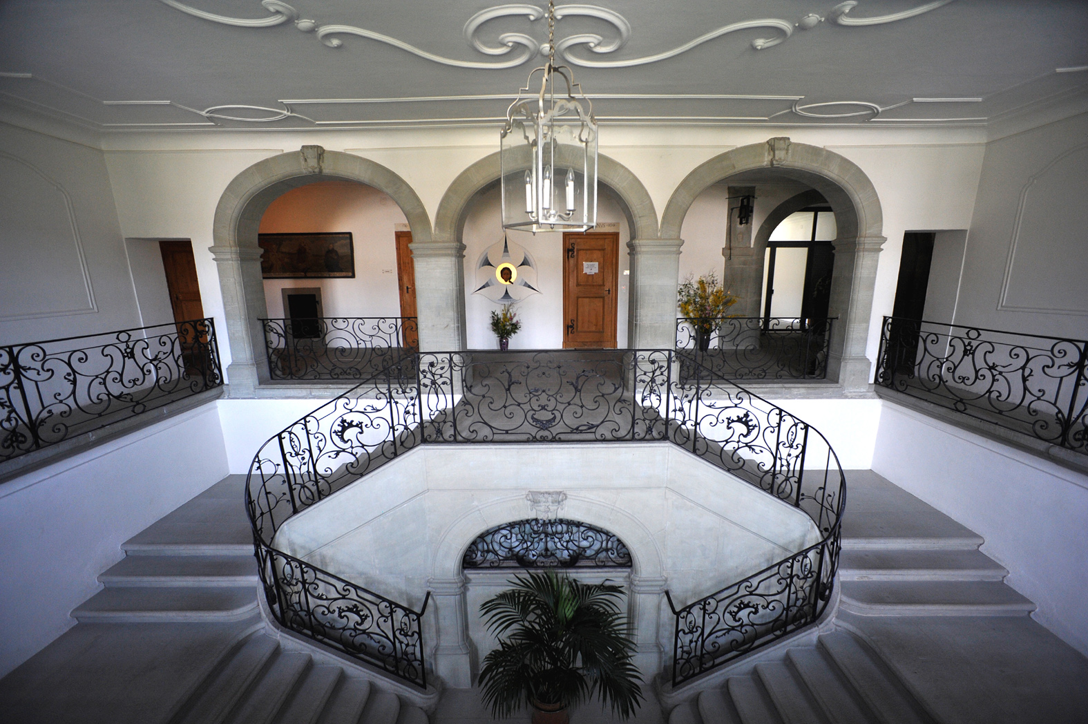 Abbey Altenryf in Hauterive; staircase in the western wing; Fribourg, Switzerland.